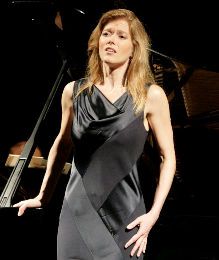 Canadian soprano Barbara Hannigan performing at the Piccolo Teatro Strehler in Milan on 6 September 2008